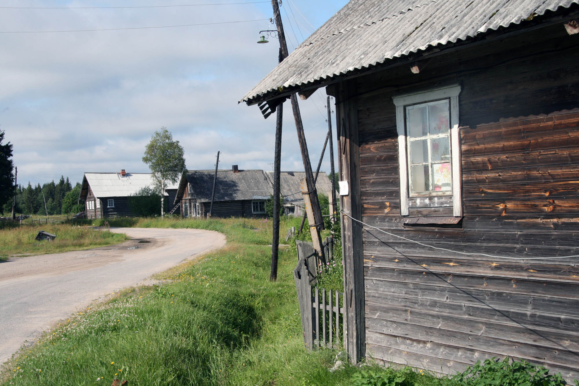 Kinnermäki (Kinerma) village in Karelia, Russia